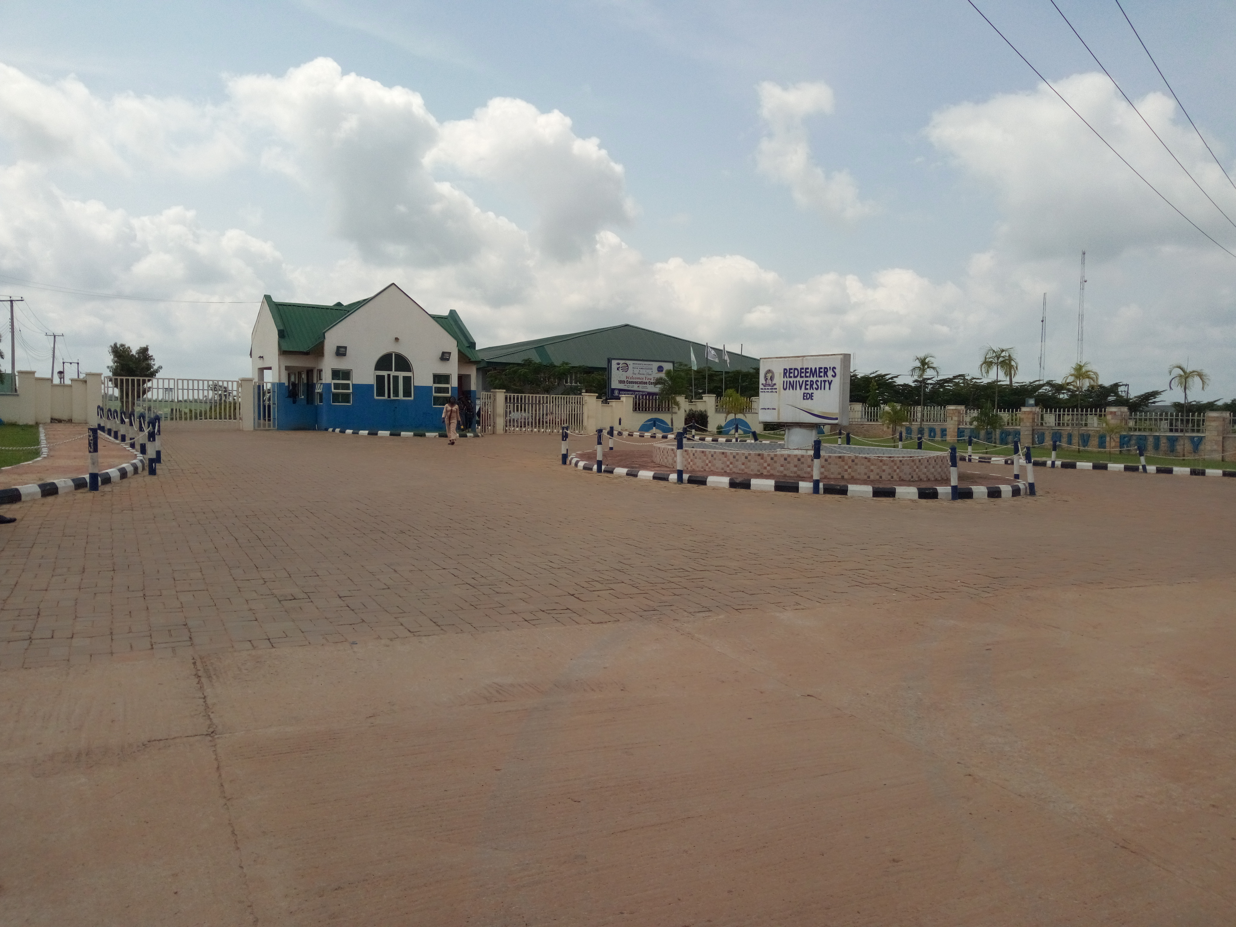 sites from Redeemers University Nigeria.